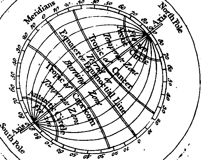 Fleuron from book: Science improved or the theory of the universe. Comprehending a rational system of the most useful as well as entertaining parts of natural and experimental philosophy, embellished with copper-plates, ... By Thomas Harrington.